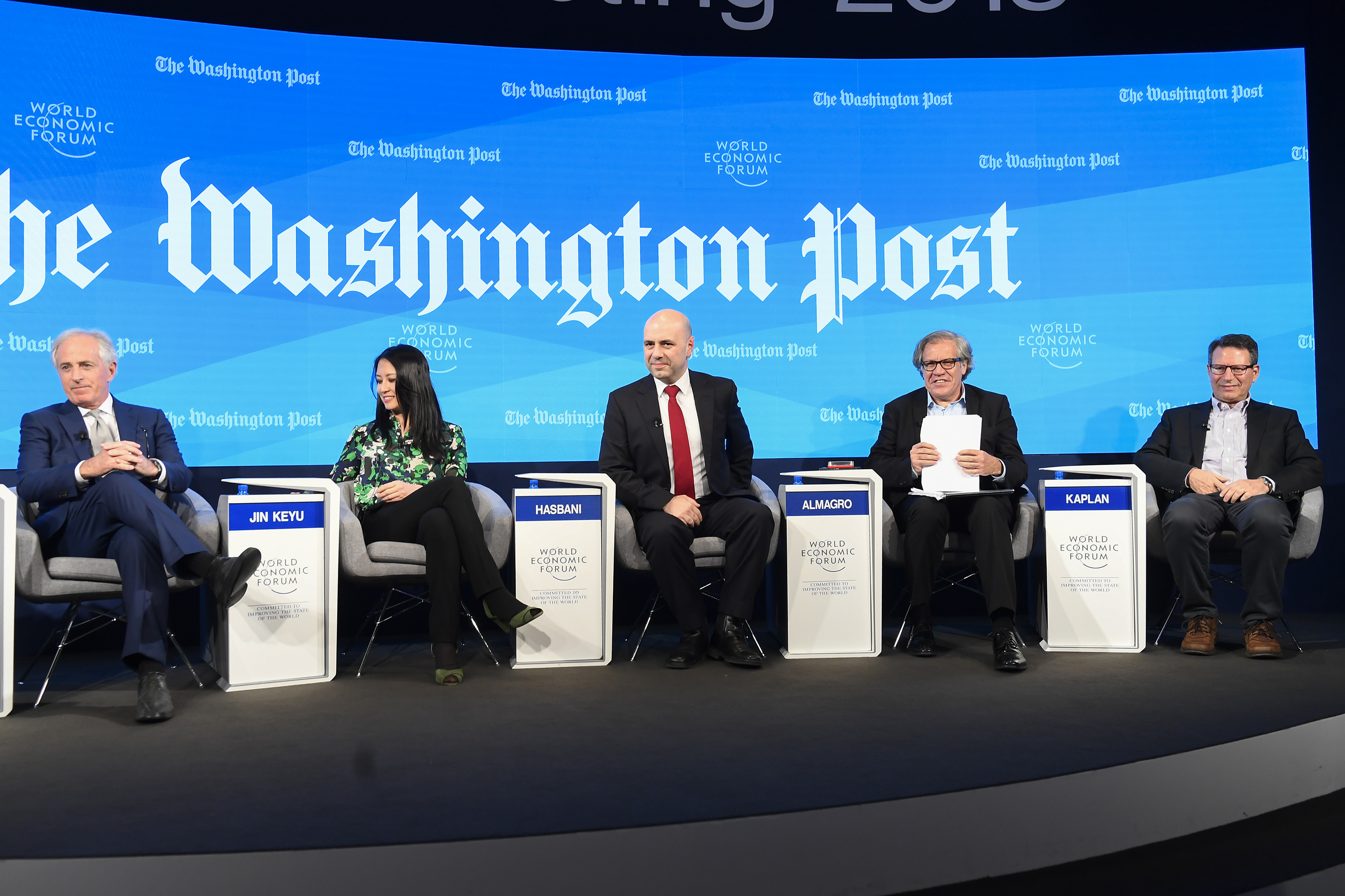 Bob Corker, Senator from Tennessee (R); Chairman of the Senate Committee on Foreign Relations, USA, Jin Keyu, YGL, Professor of Economics, London School of Economics and Political Science, United Kingdom, Ghassan Hasbani Deputy Prime Minister and Minister of Public Health Lebanon Government, Luis Almagro, Secretary-General, Organization of American States (OAS), Washington DC and Robert D. Kaplan, Senior Fellow, Center for a New American Security (CNAS), USA during the The Global Impact of America First Session at the Annual Meeting 2018 of the World Economic Forum in Davos, January 24, 2018. Copyright by World Economic Forum / Valeriano Di Domenico